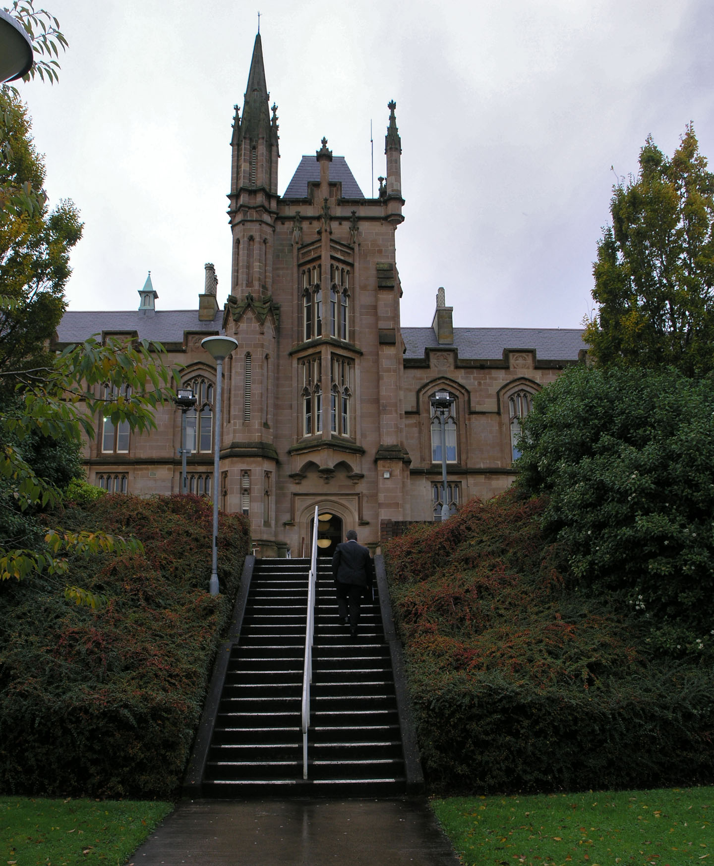 My own work - SeanMack - image of Magee University - university of Ulster, Derry.